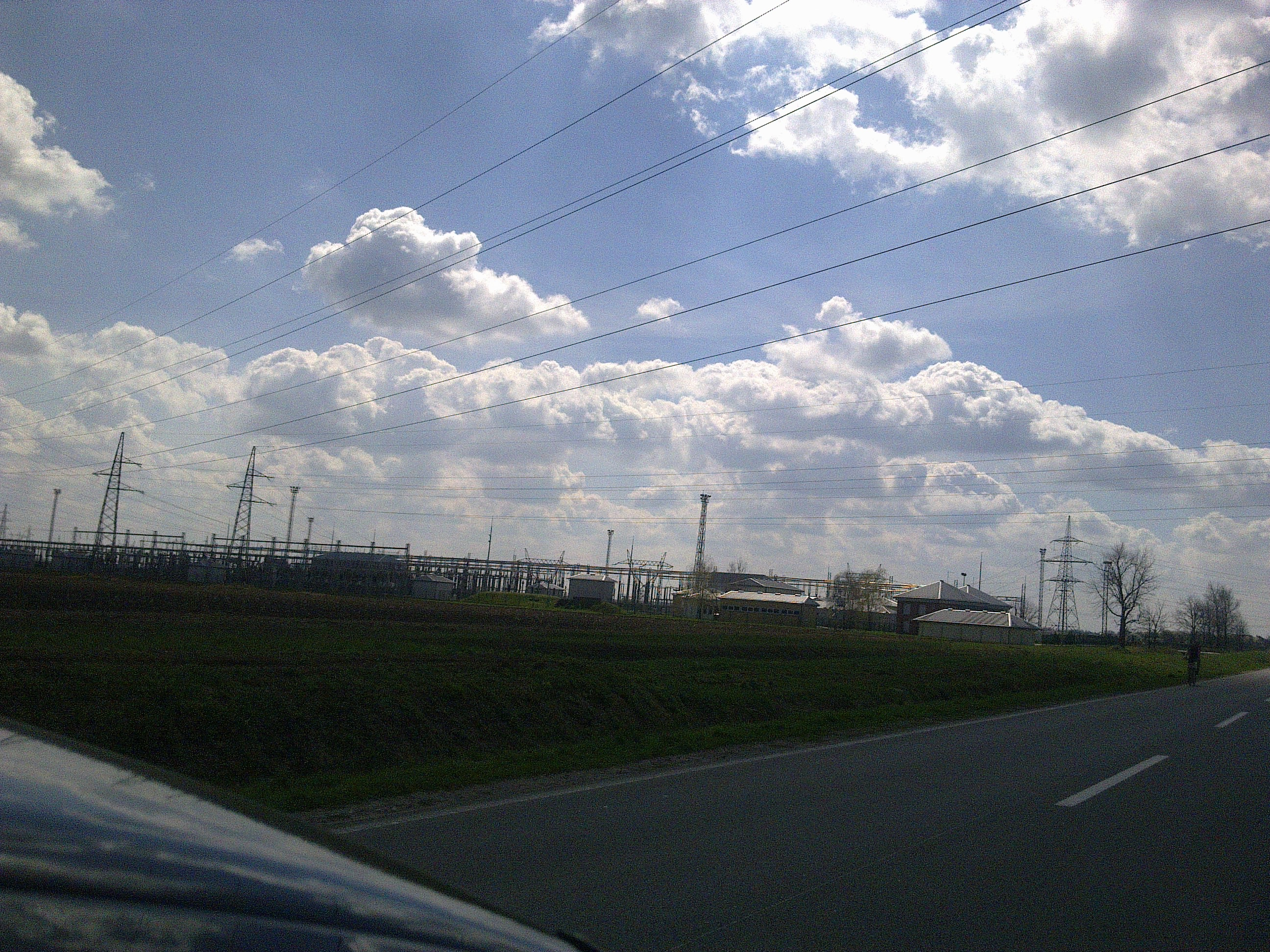 View of the Ernestinovo HEP power distribution station as seen from the north, taken from the D518 road